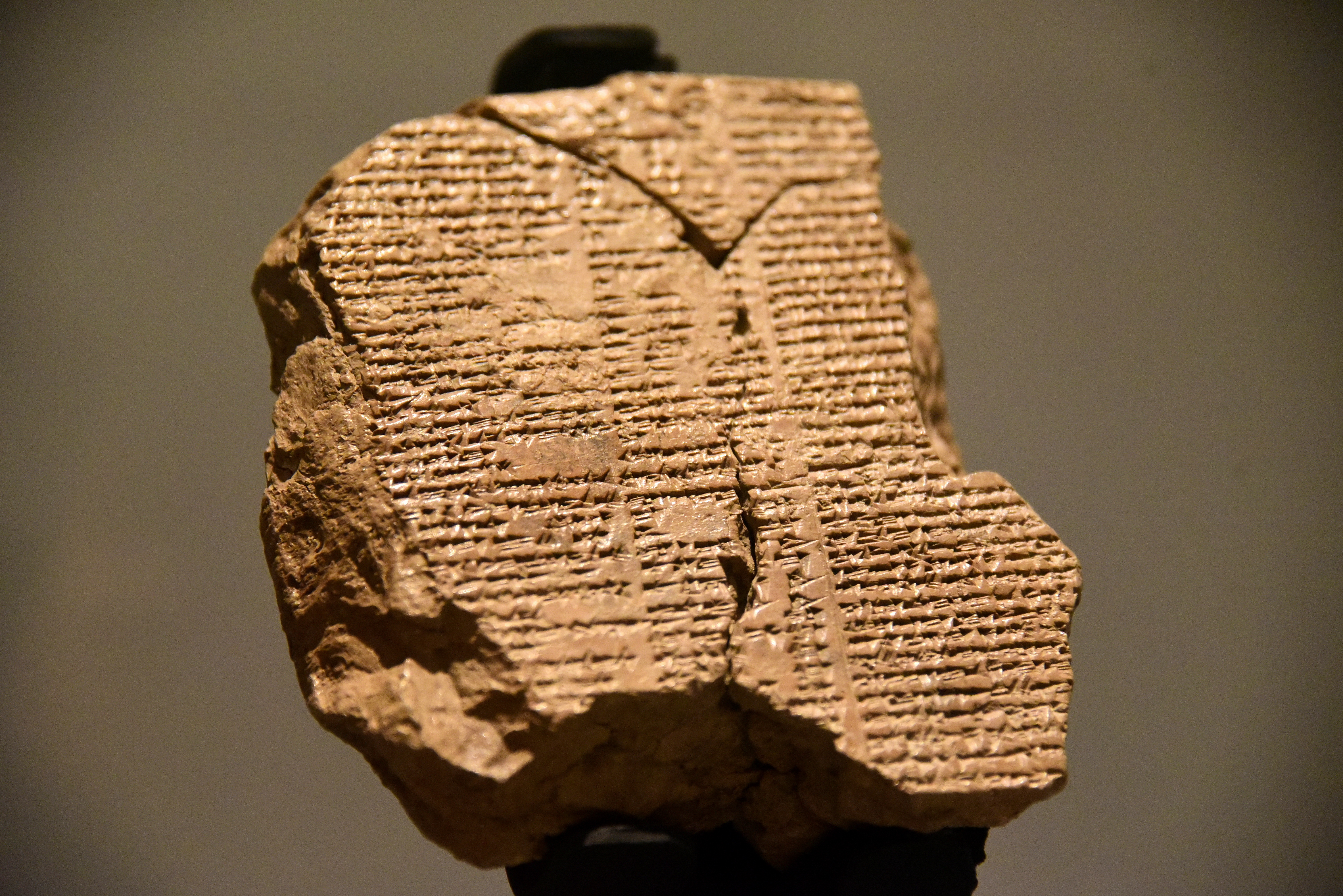 It dates back to the Old-Babylonian Period, 2003-1595 BCE.